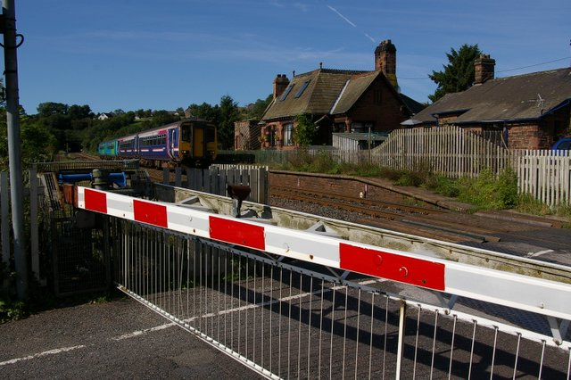 Train at Culgaith. Two Km squares meet at this level crossing!